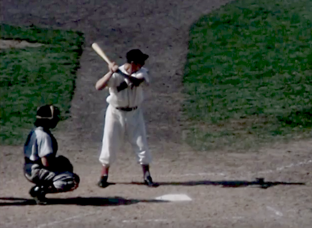 Dom DiMaggio at bat in the 1950s. Taken from the film shown, at about the 2:16 mark. Screen capture, lightened and adjusted by the uploader.